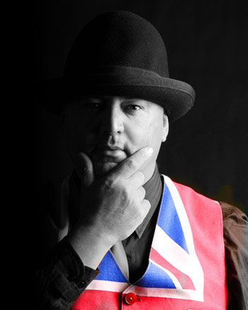 A picture of the British street performer Gary 'Gazzo' Osbourne.